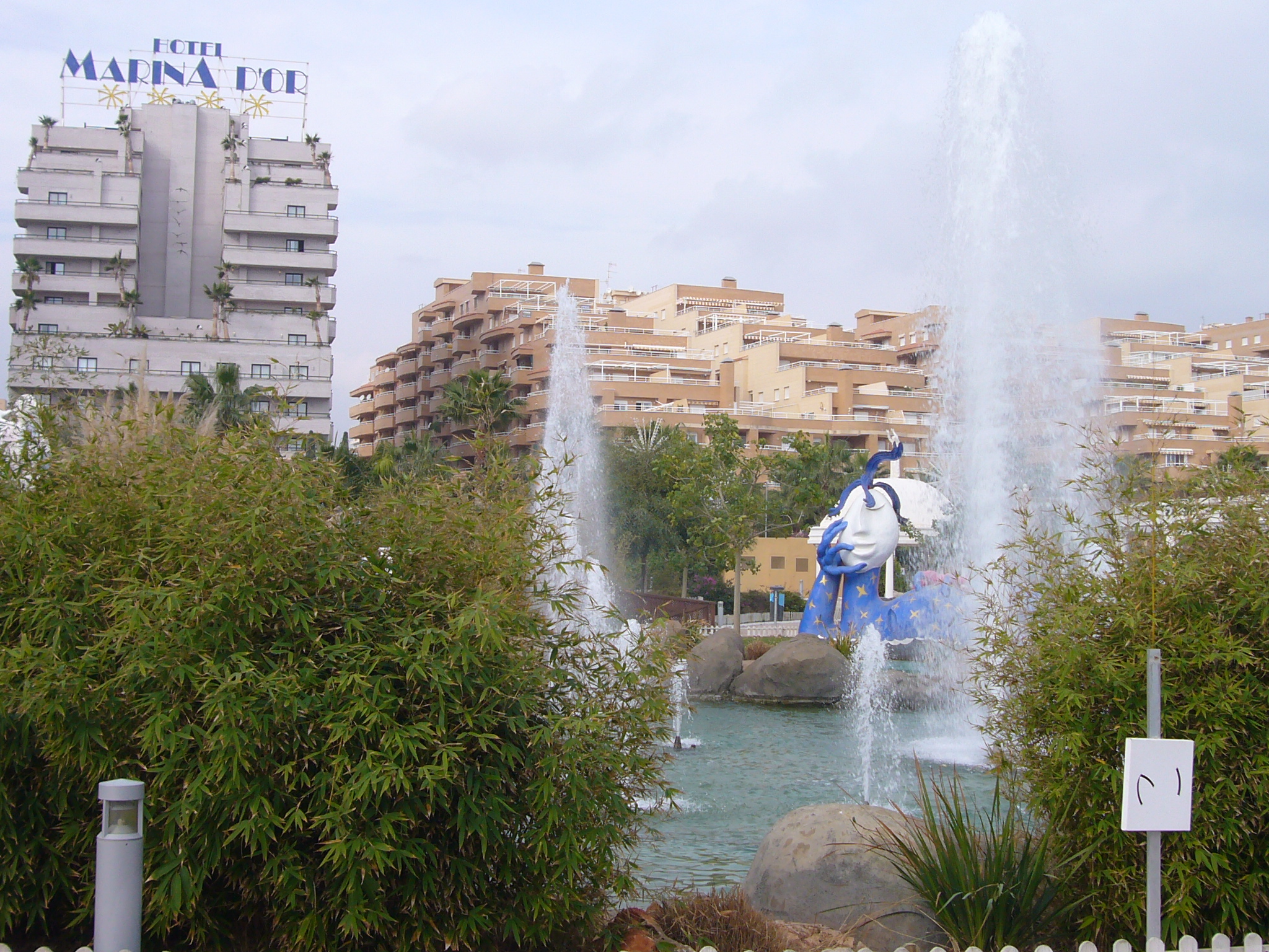 Oropesa - Marina d'Or